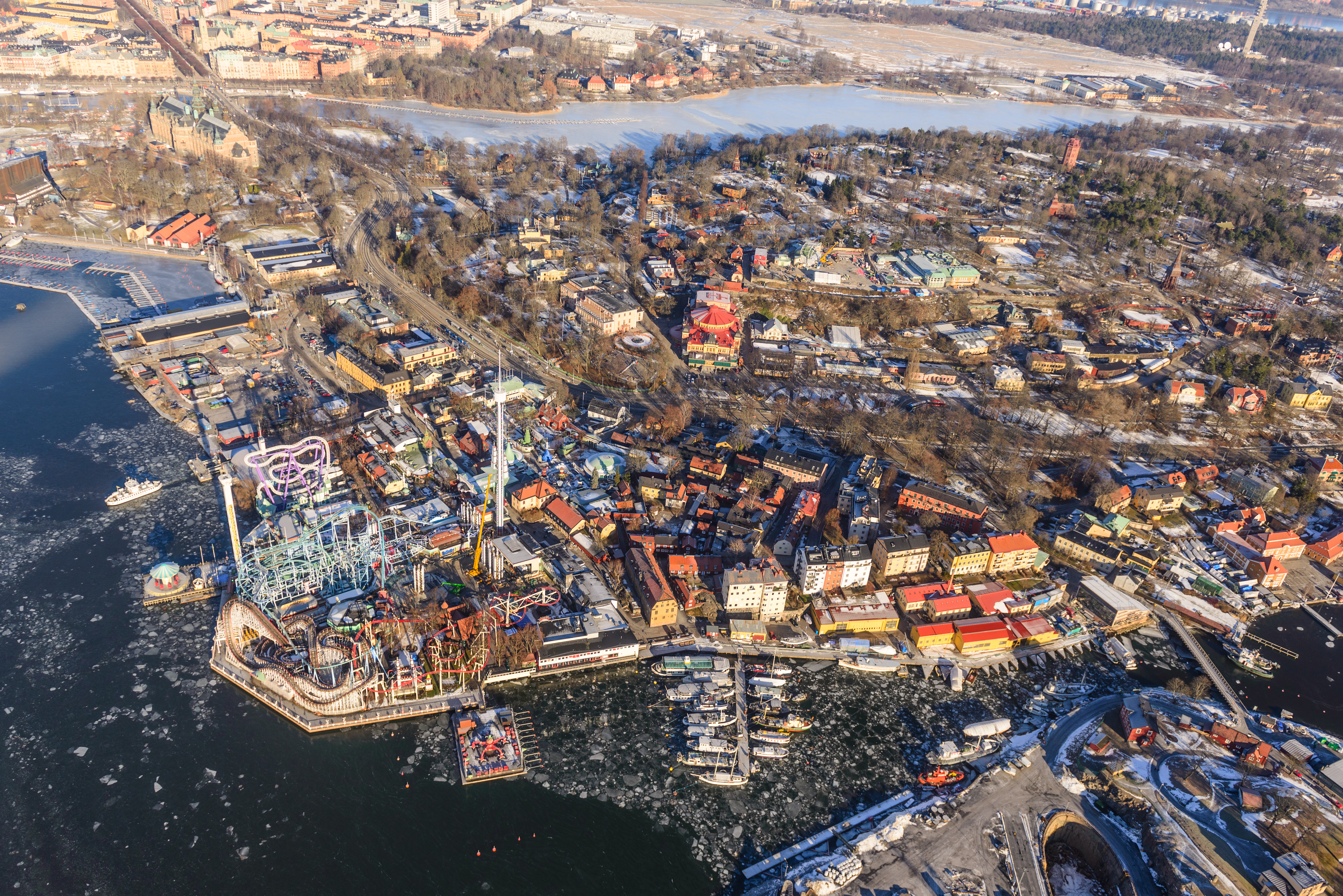 Djurgården and Gröna Lund.